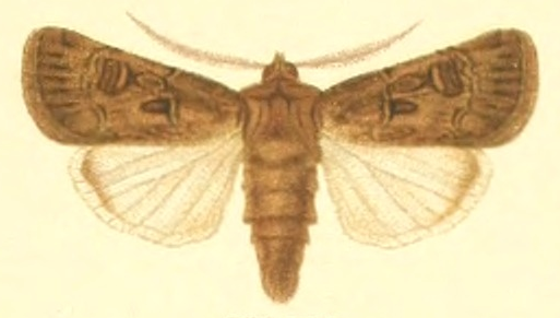 Image from Plate 5 of Die Gross-Schmetterlinge der Erde (The Macrolepidoptera of the World) Vol. 3